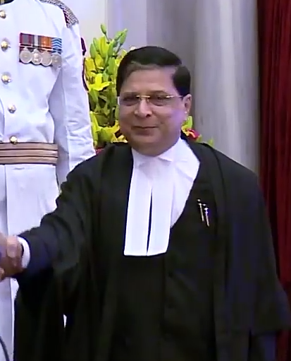 Shri. Justice Dipak Misra Sworn in as the Chief Justice of the Supreme Court of India